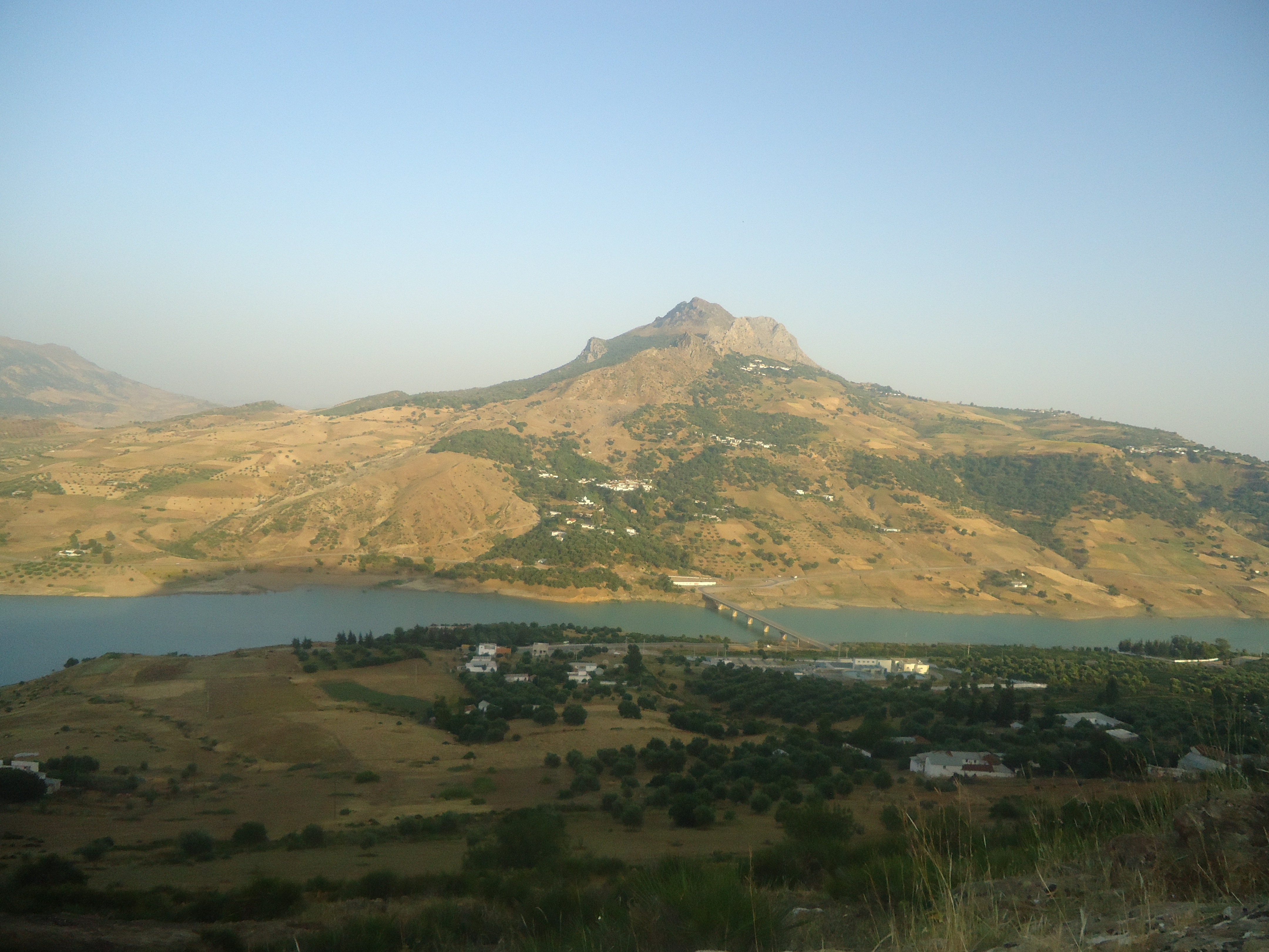 Sidi M?sghod, a mountain in Ourtzagh commune